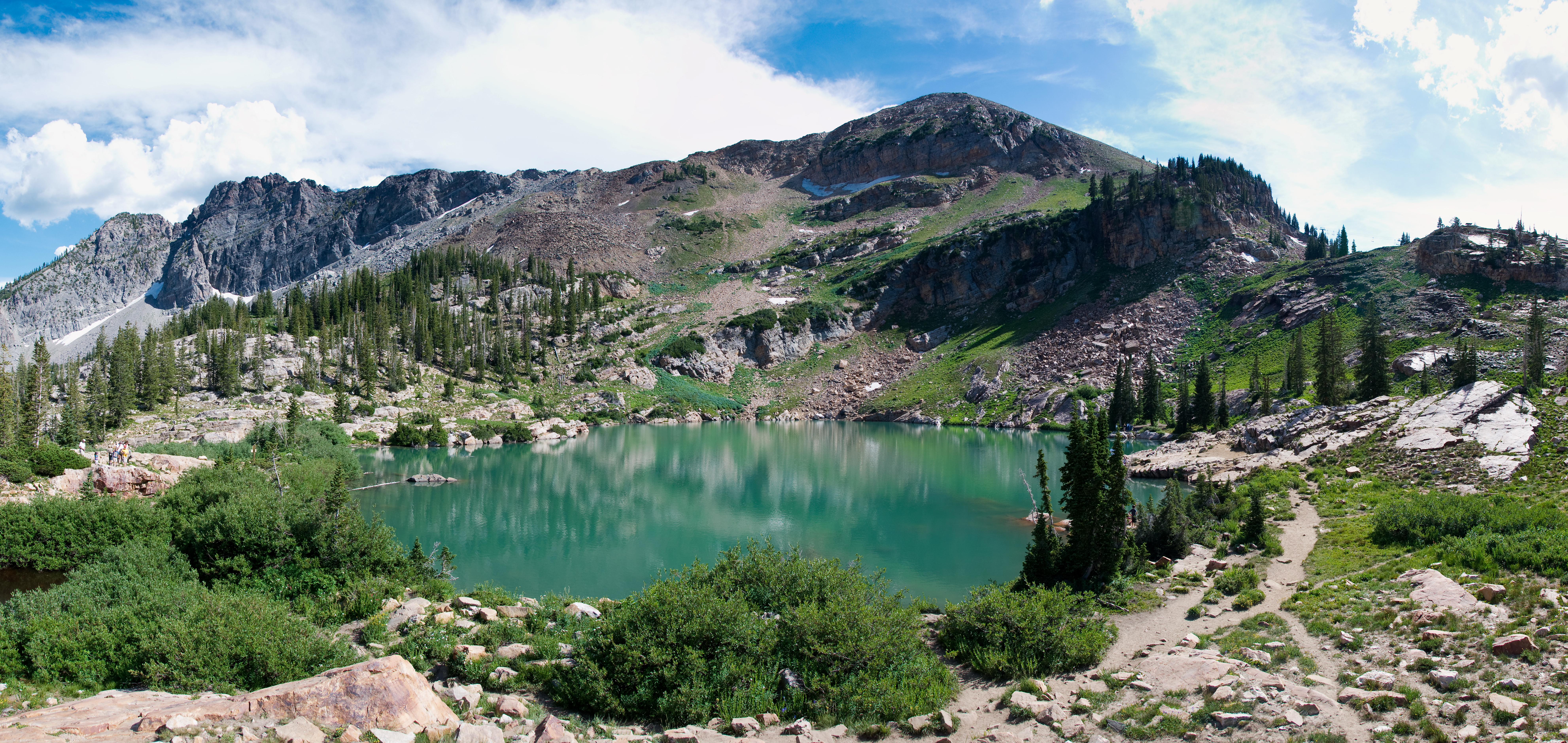 180 Degree Panorama Picture of Cecret Lake in the Albion Basin area near Alta, Utah. Part of the Wasatch Range and Wasatch Forest area.